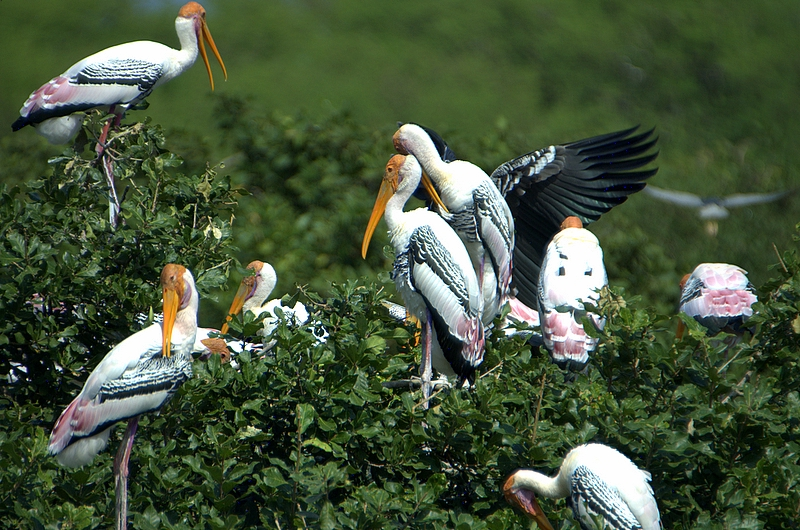 Mycteria leucocephala colony, Vedanthangal, Tamil Nadu, IndiaColony of Painted Stork